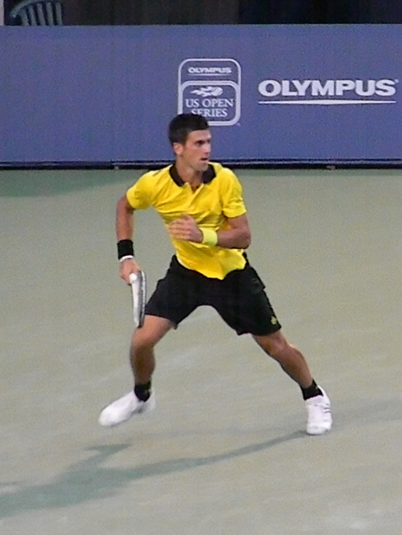 Novak Đoković vs Roger Federer on 2010 Rogers Cup Semifinal game in Toronto, Rexall Centre 1:2 (1:6, 6:3, 5:7)